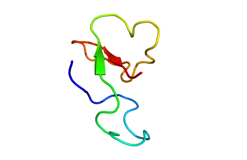 3D model of ATX-II toxin created with Protein Homology/analogY Recognition Engine V 2.0